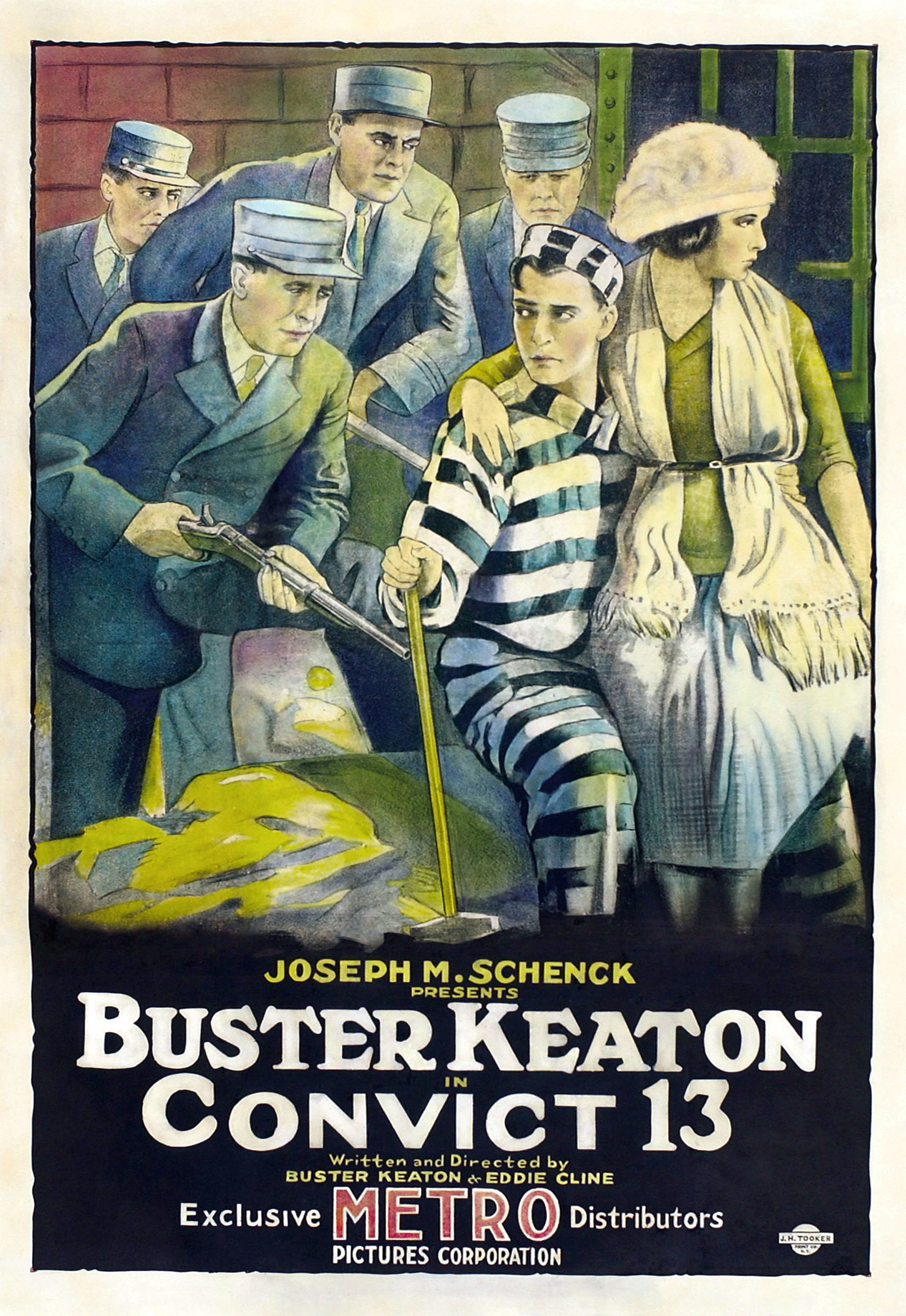 Movie poster for the 1920 film Convict 13 staring Buster Keaton.